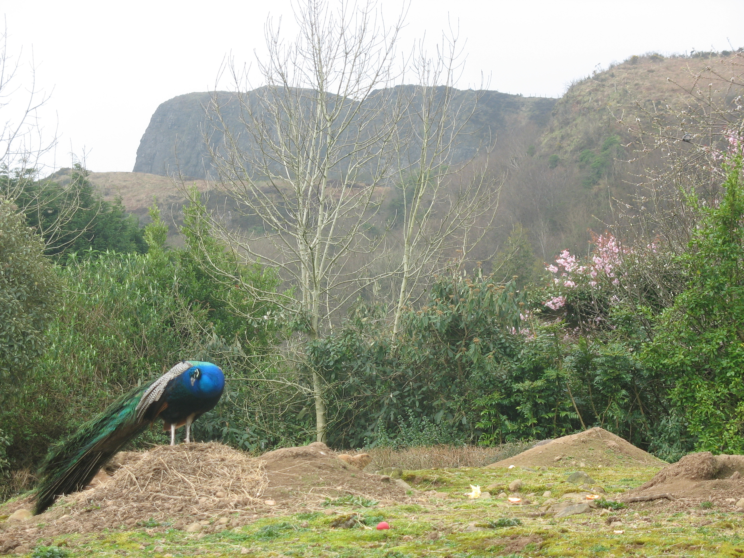 Blue Peafowl in Belfast Zoo.